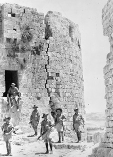 Australian troops among the ruins of the old Crusader castle at Sidon, Lebanon